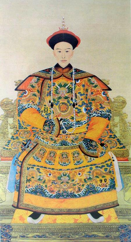 The Imperial Portrait of a Chinese Emperor called "Guangxu".